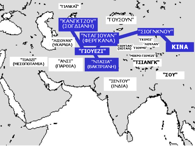 Translation of File:ZhangQianTravel.jpg to Greek